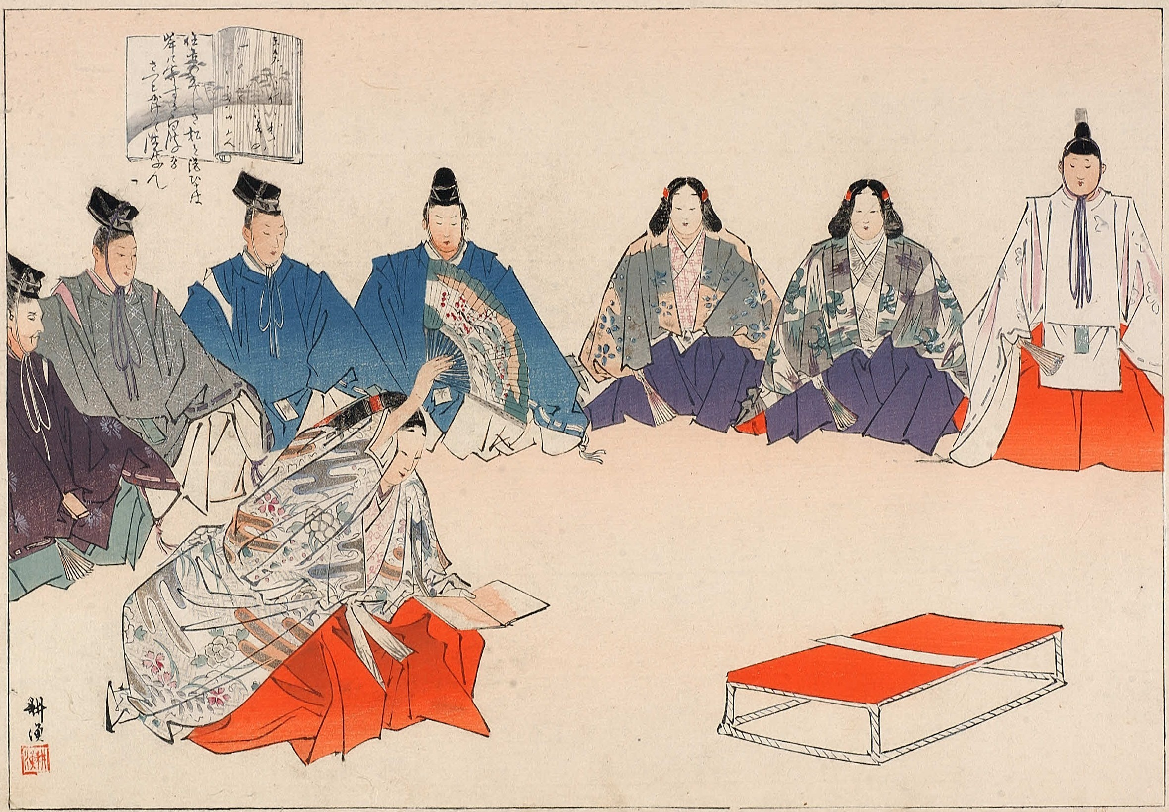 Scene from "Sôshi-arai Komachi", a Nô-play